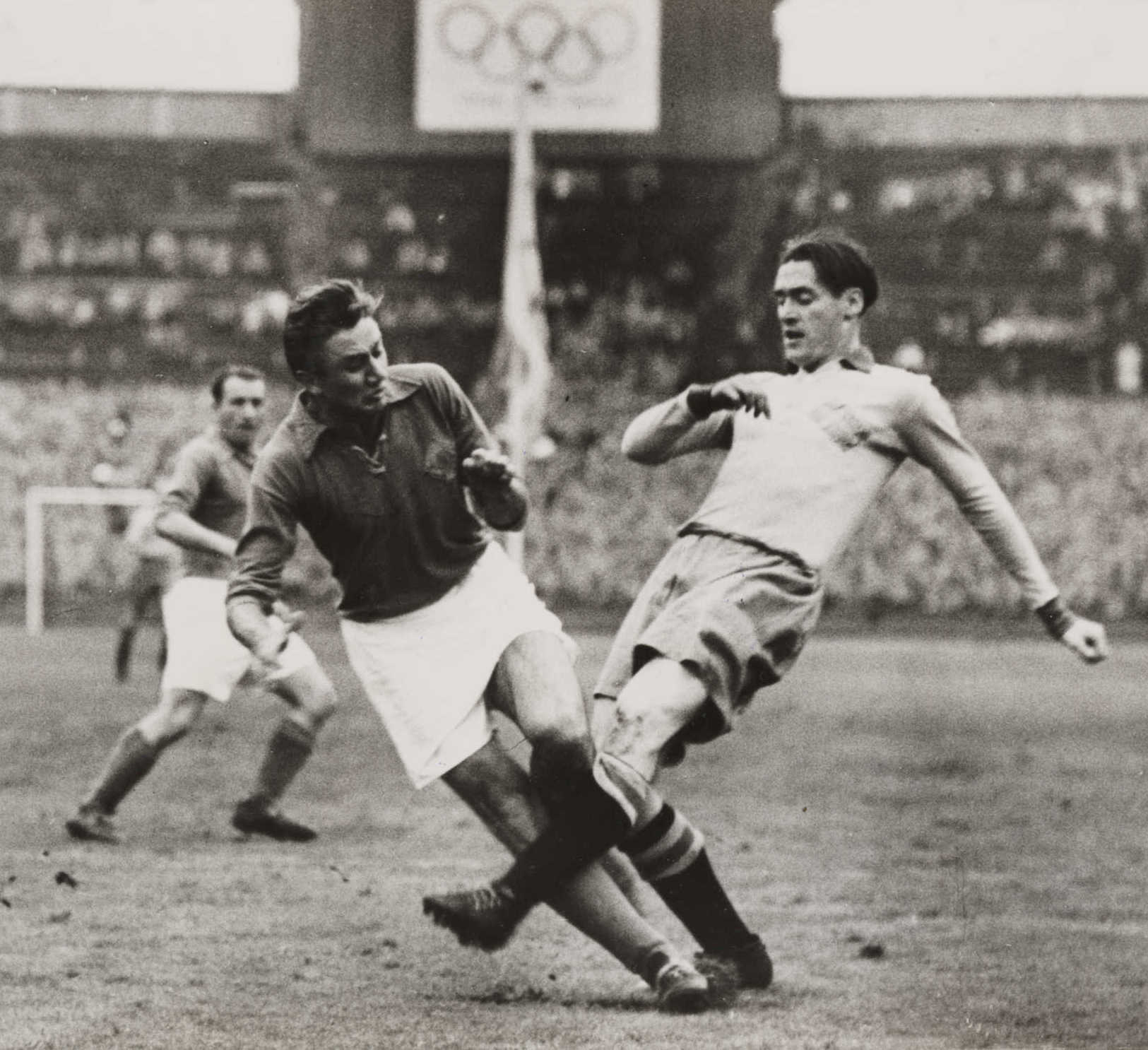 Liedholm of Sweden getting tied in a knot with Brozovic of Yugoslavia during the Olympic final at Wembley. Sweden were eventual winners, 3-1. For obtaining reproductions of selected images please go to the Science and Society Picture Library.